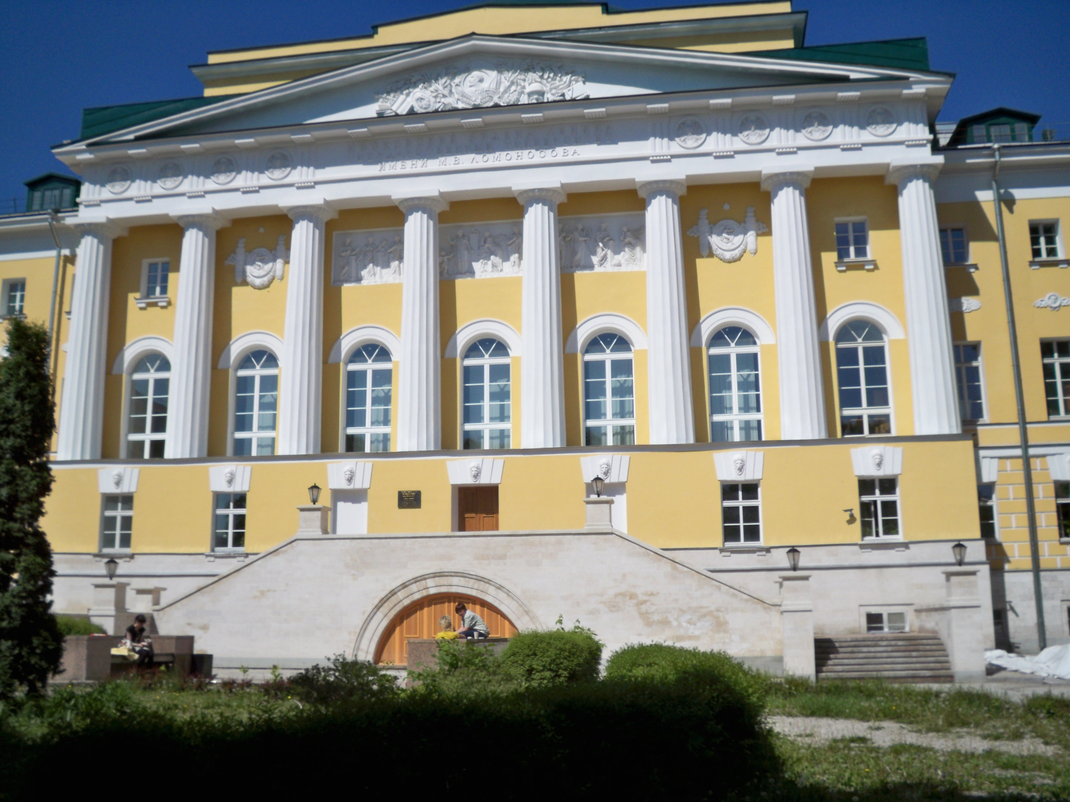 Institute of Asian and African Countries